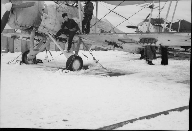 The Royal Navy during the Second World War A Fairey Swordfish on the snow-covered flight deck of the merchant aircraft carrier MV ANCYLUS. Note the engine cover on the aircraft.